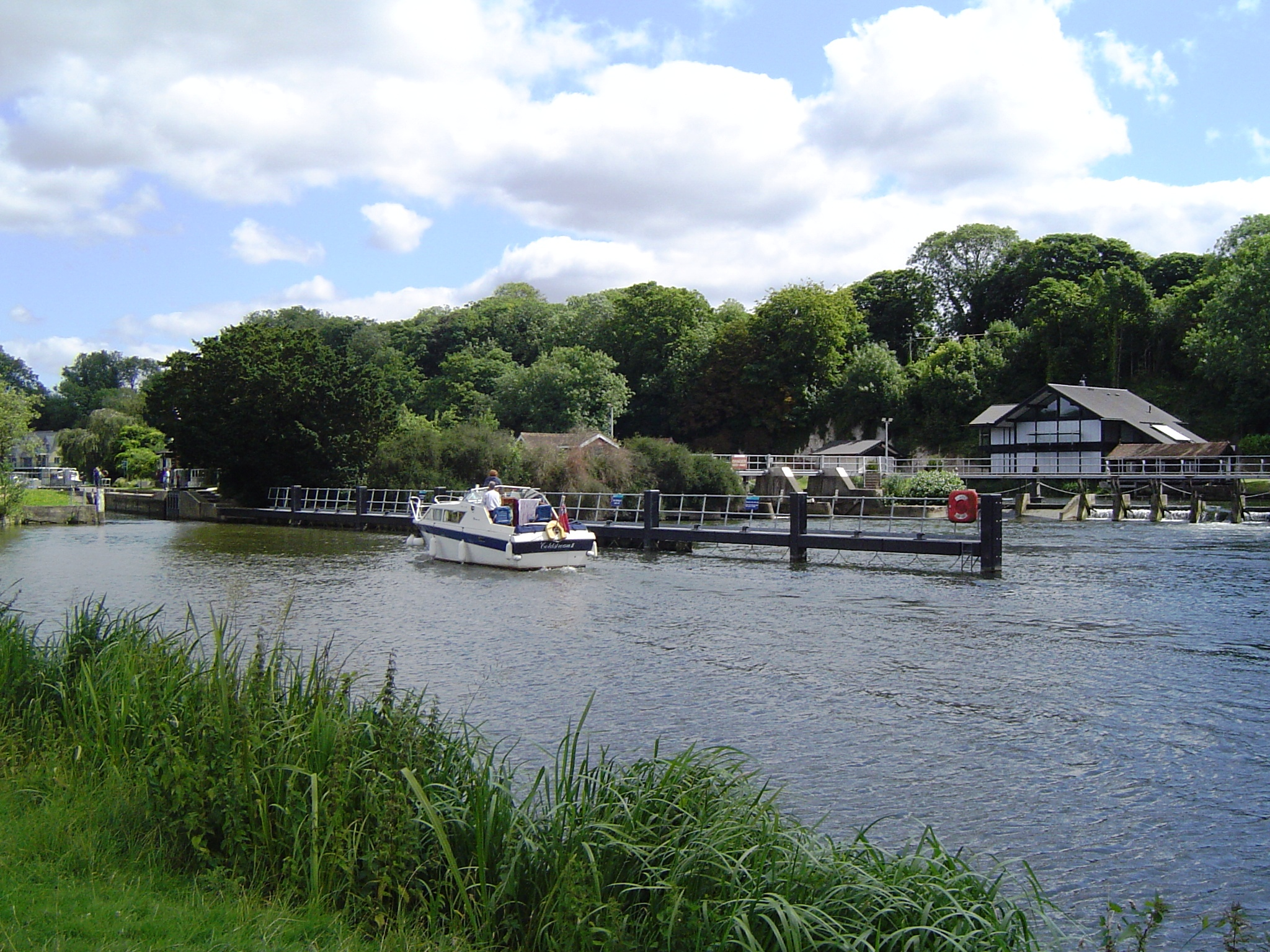 Cleeve Lock and Weir River Thames Goring looking upstream